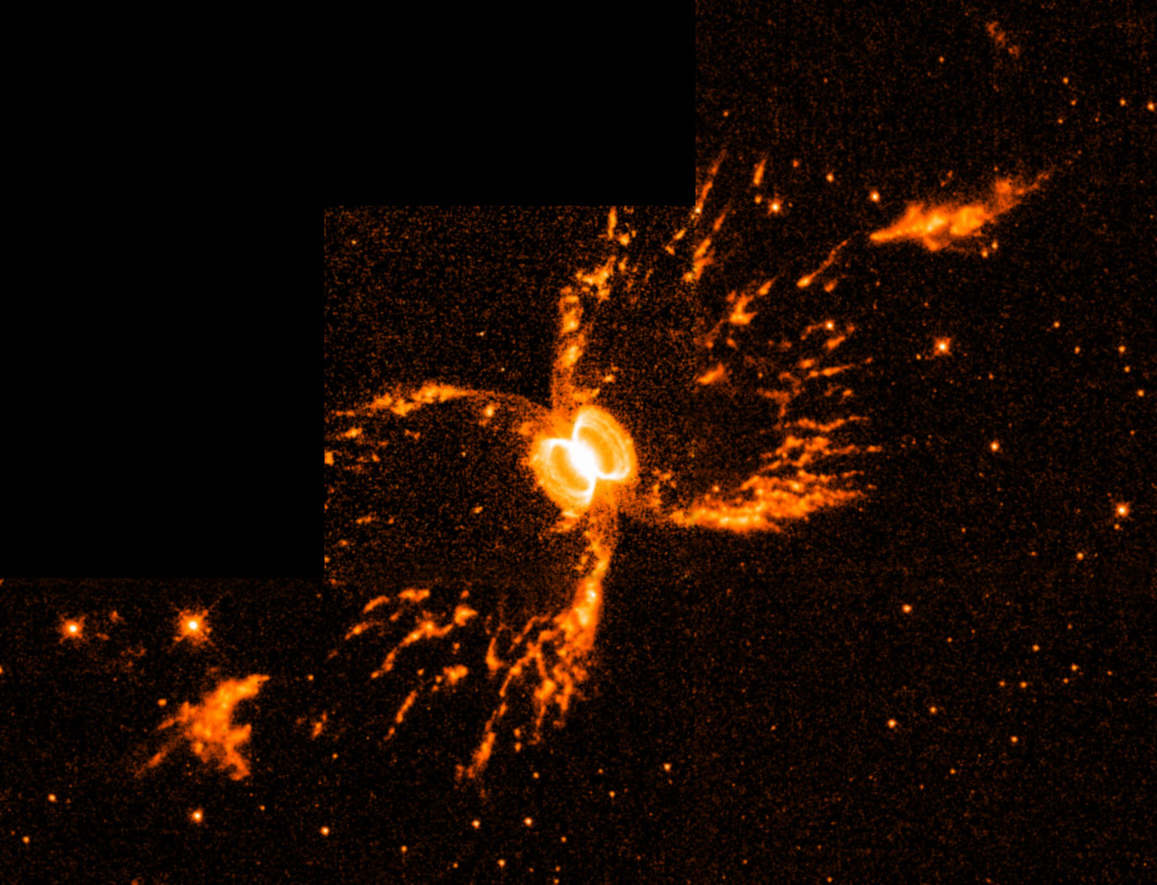 The Southern Crab Nebula (He2-104) in its entirety, as observed by the Hubble Space Telescope.